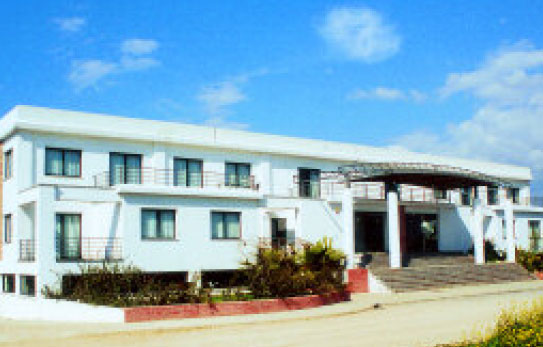 Frederick University Campus in Limassol